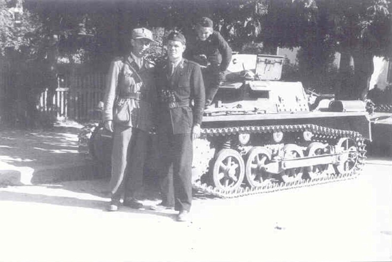 The Home Guard Colonel Franjo Šimić and the Ustashe Major Rafael Boban during the Battle of Kupres. On the tank is Suljo Efendić, the youngest soldier of the Black Legion.